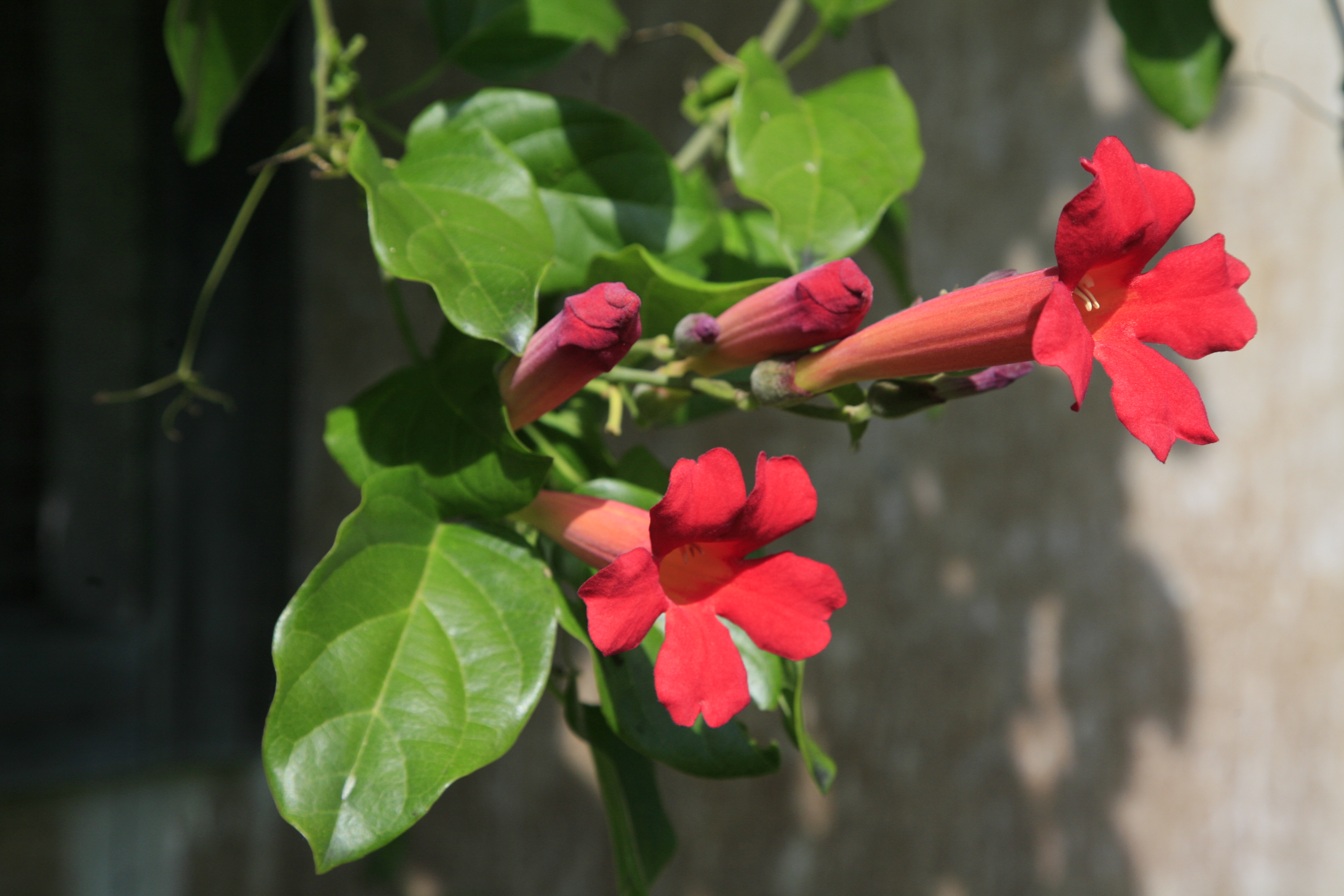 Distictis buccinatoria